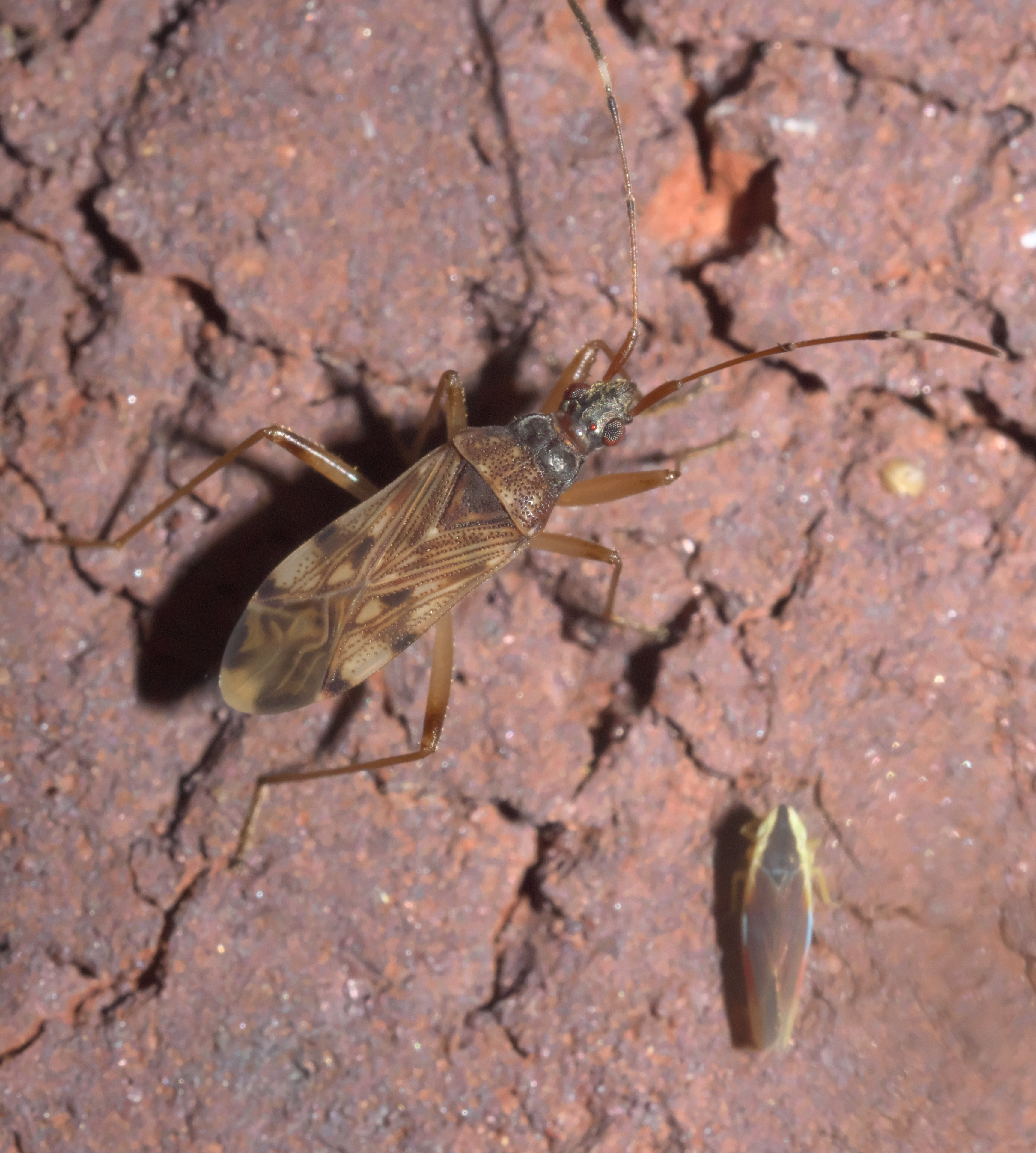 Ozophora picturata, Family: Dirt-colored Seed Bugs, Size: 6.3 mm, ID Confidence: 88